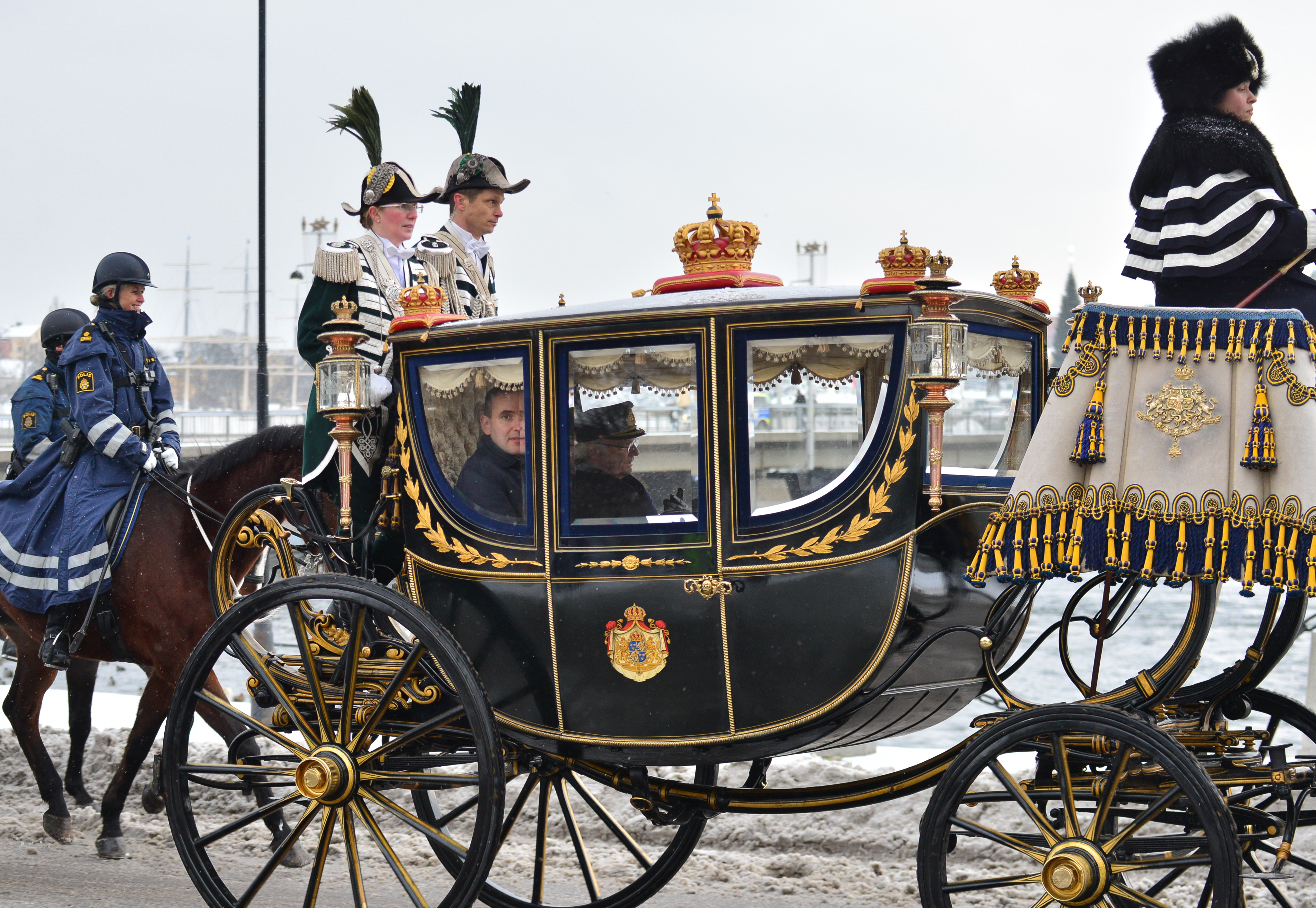 Islands president Gudni Thorlacius Jóhannesson on state visit in Sweden together with his wife Eliza Jean Reid in Stockholm on January 17, 2018.